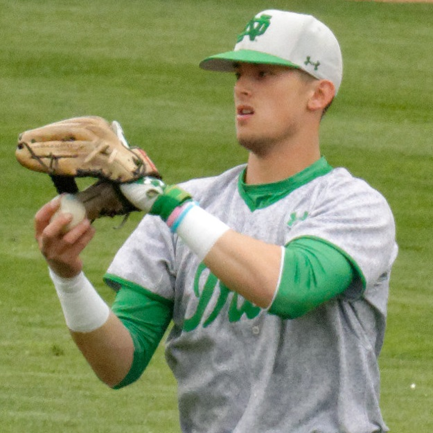 Cavan Biggio playing for the Notre Dame Fighting Irish on April 19, 2016